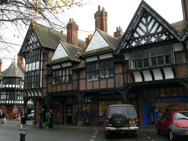 Photograph of St Werburgh Mount, Chester